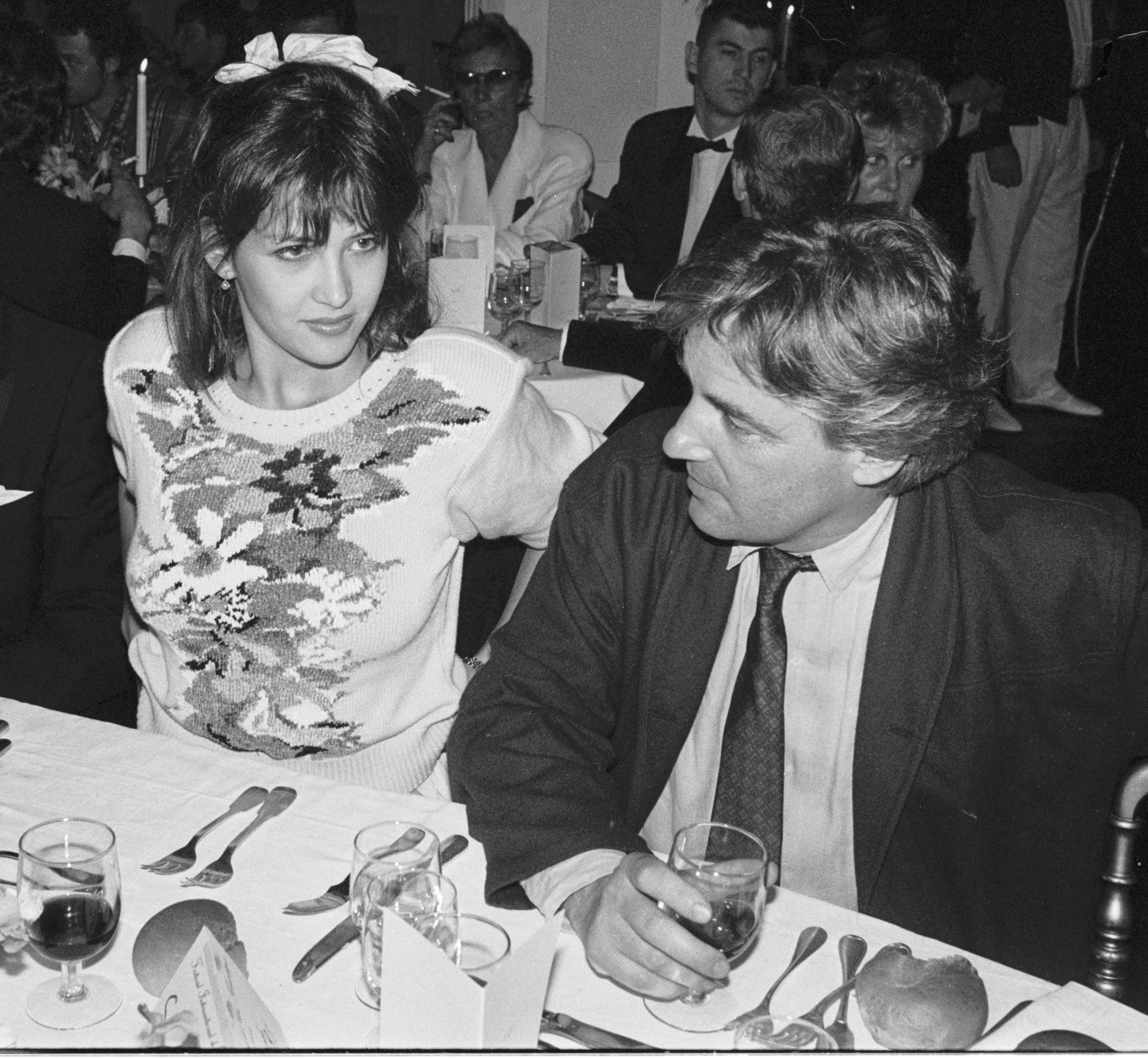 Sophie Marceau avec la réalisateur polonais Andrzej Zulawski au Festival du cinéma romantique de Cabourg (Normandie) 1988.